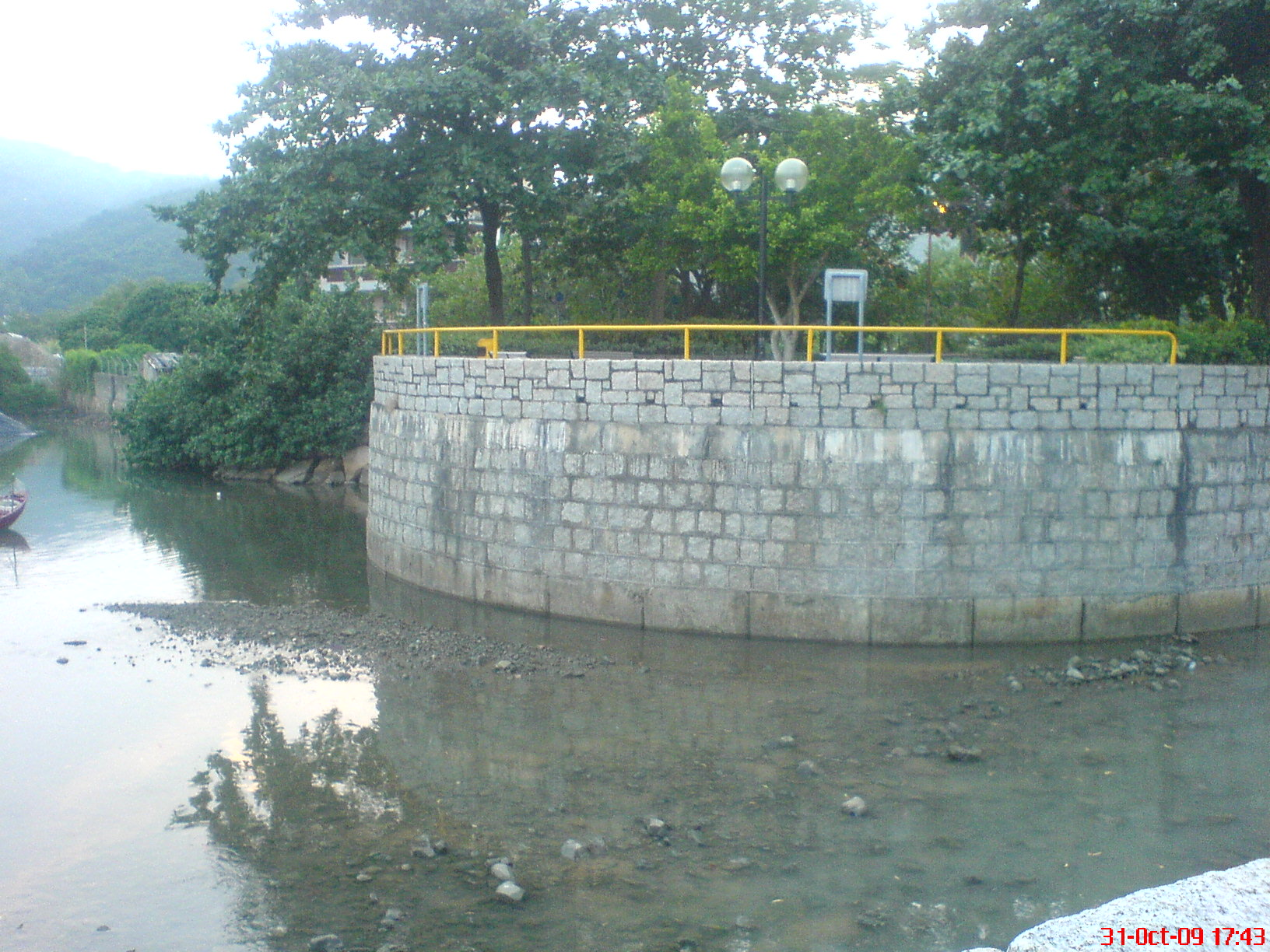 The river on the left is Luk Tei Tong River and the river on the right is Tai Tei Tong River.